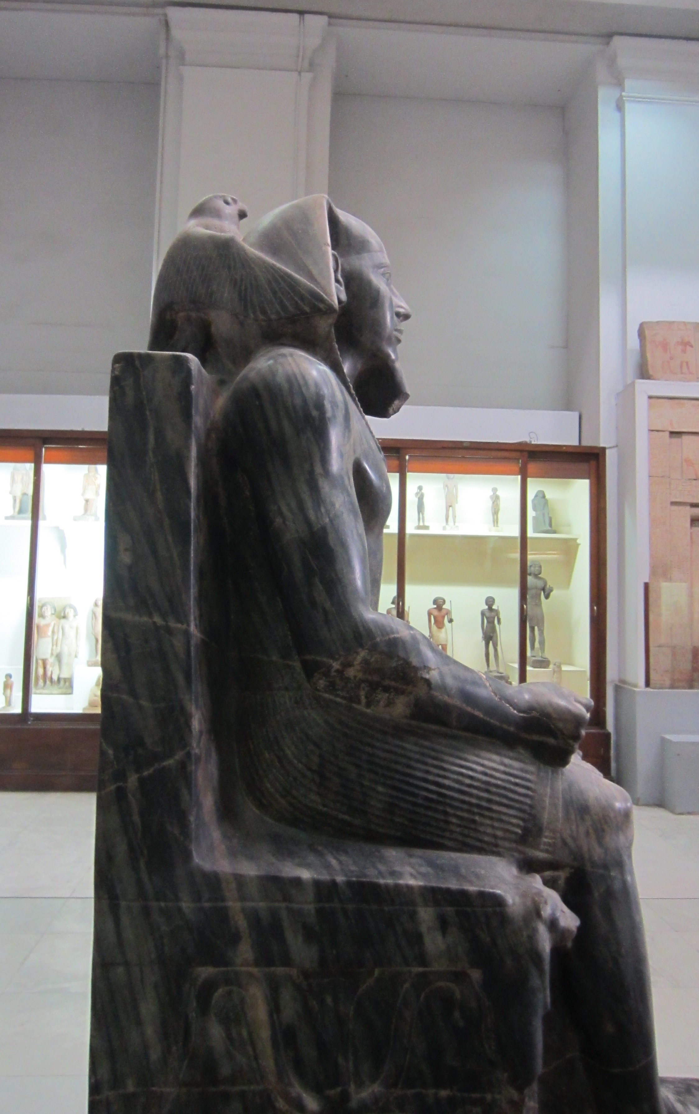 The statue of Khafre from his valley temple at Giza, now in the Egyptian Museum of Antiquities in Cairo. A figure of a falcon—the god Horus—extends his wings around the king's head. Fourth Dynasty, 26th century BC.